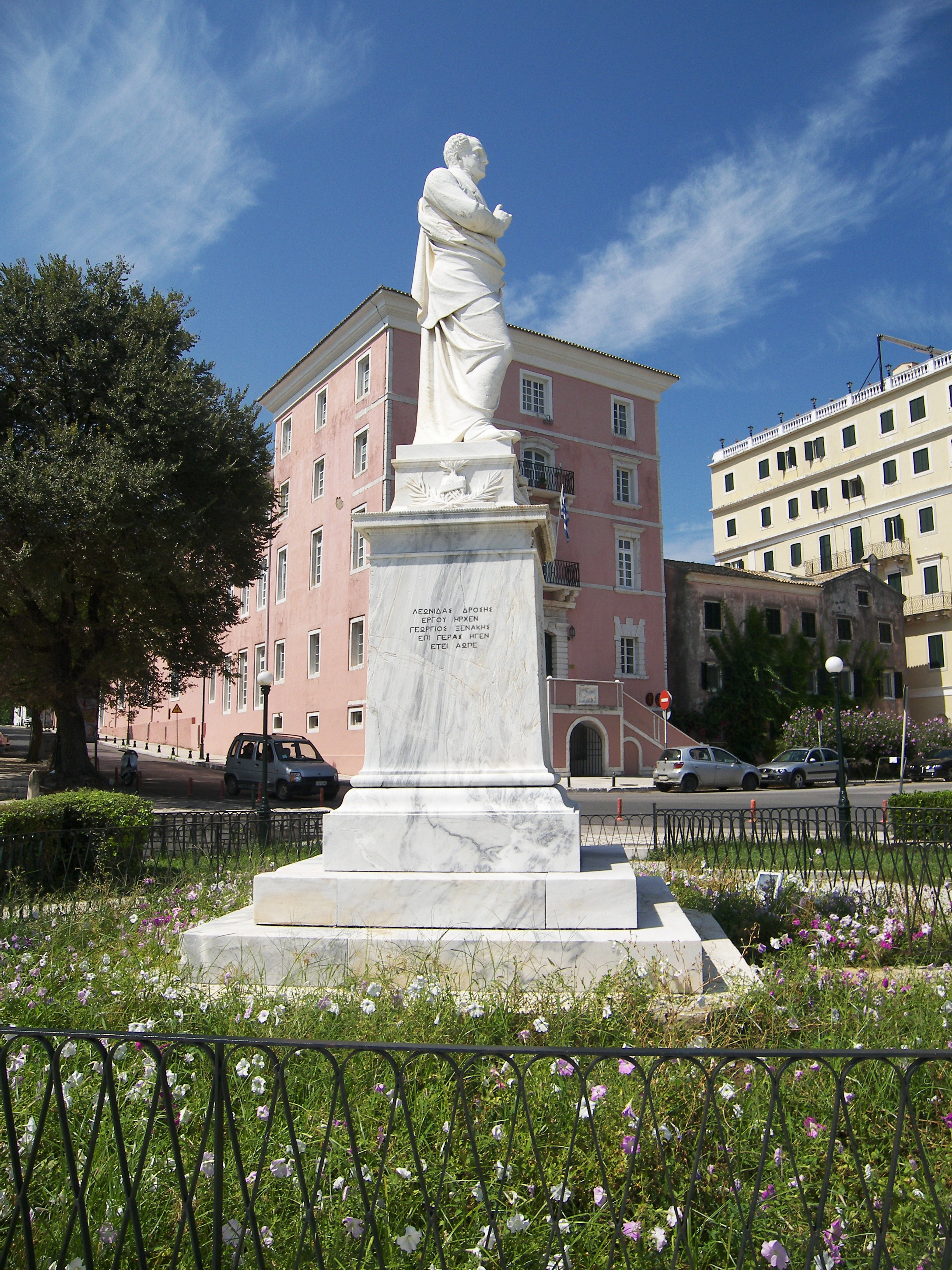 Please see filename